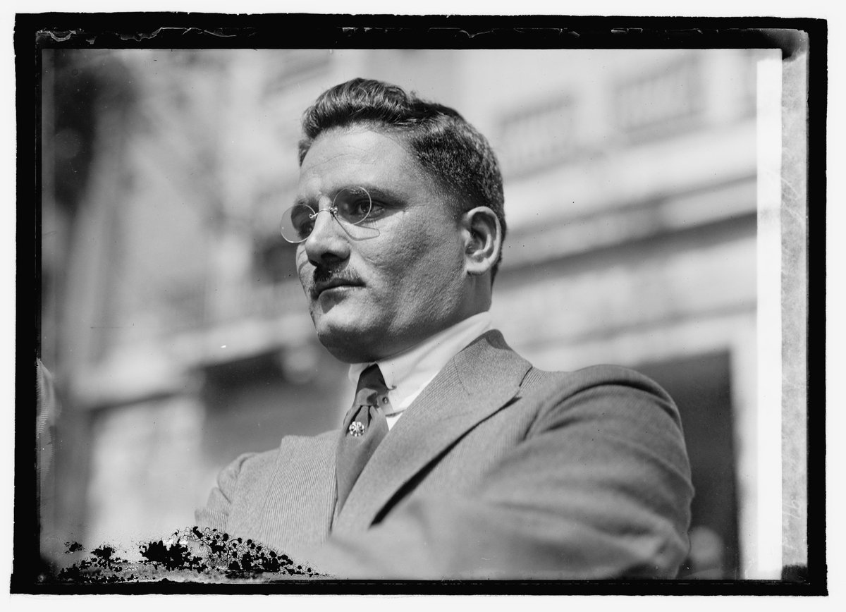 A photograph of Bhagwan Singh Gyanee, President of the Ghadar Party, taken in 1919.